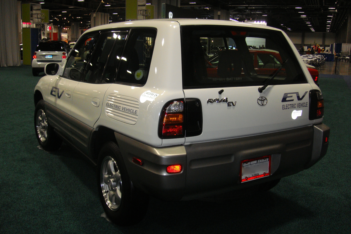 Toyota RAV 4 EV (electric vehicle) exhibited at the 2010 Washington Auto Show